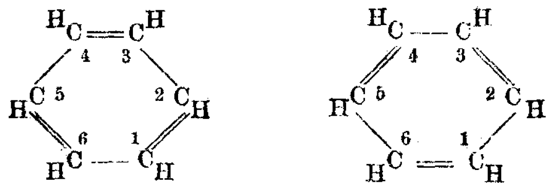 August Kekulé's proposal for the benzene structure in its original, taken from: August Kekulé (1872). "Ueber einige Condensationsproducte des Aldehyds". Liebigs Ann. Chem. 162 (1): 77–124. "[…] man sieht daher, dass jedes Kohlenstoffatom mit den beiden anderen, mit welchen es zusammenstösst, gleich oft zusammenprallt, also zu seinen beiden Nachbarn genau in derselben Beziehung steht. Die gewöhnliche Benzolformel drückt natürlich nur die in Einer Zeiteinheit erfolgenden Stösse […] aus, und so ist man zu der Ansicht verleitet worden, Biderivate mit den Stellungen 1,2 und 1,6 müssten nothwendig verschieden sein. Wenn die eben mitgetheilte Vorstellung oder eine ihr ähnliche für richtig gehalten werden darf, so folgt daraus, dass diese Verschiedenheit nur eine scheinbare, aber keine wirkliche ist."